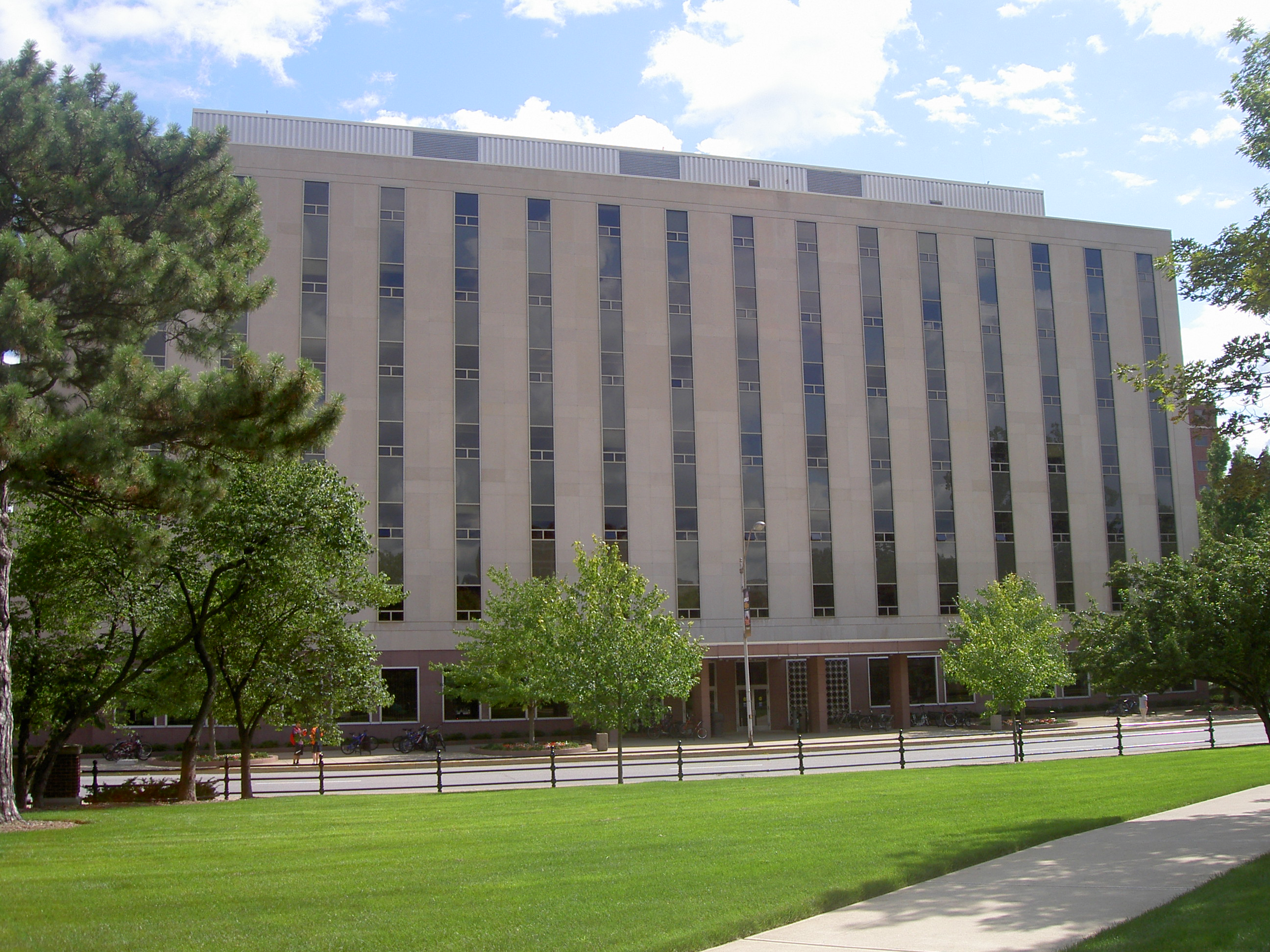 Purdue University